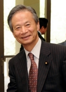 Satsuki Eda at the official residence of the chairman of the House of Councillors in Japan in April 2008.